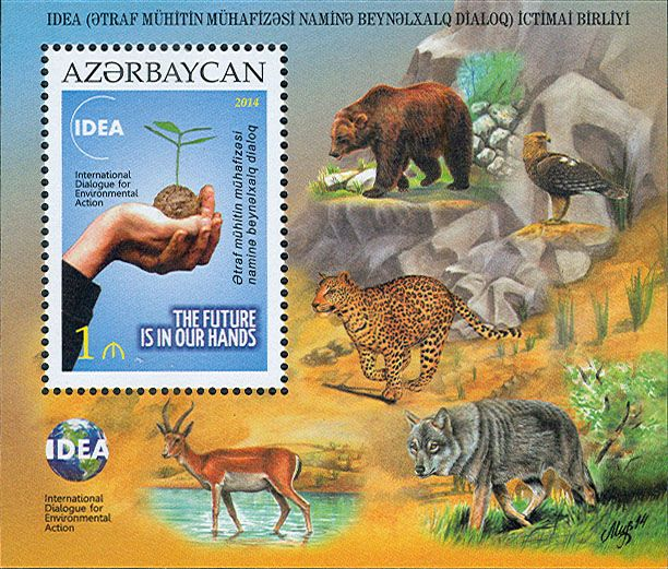 International Dialogue for Environmental Action